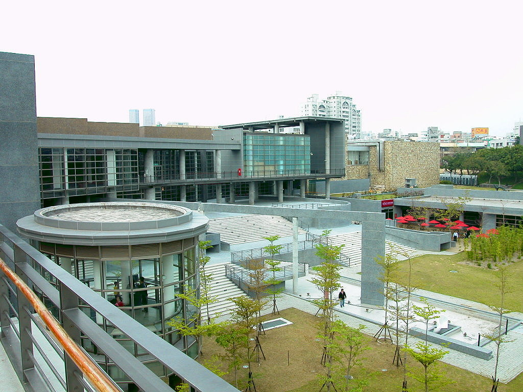 Information: National Taiwan Museum of Fine Arts / Taichung City, Taiwan/ taken by EssO/ 相關資訊：國立台灣美術館 / 台中市 / 愛索拍攝 / 05 April, 2005